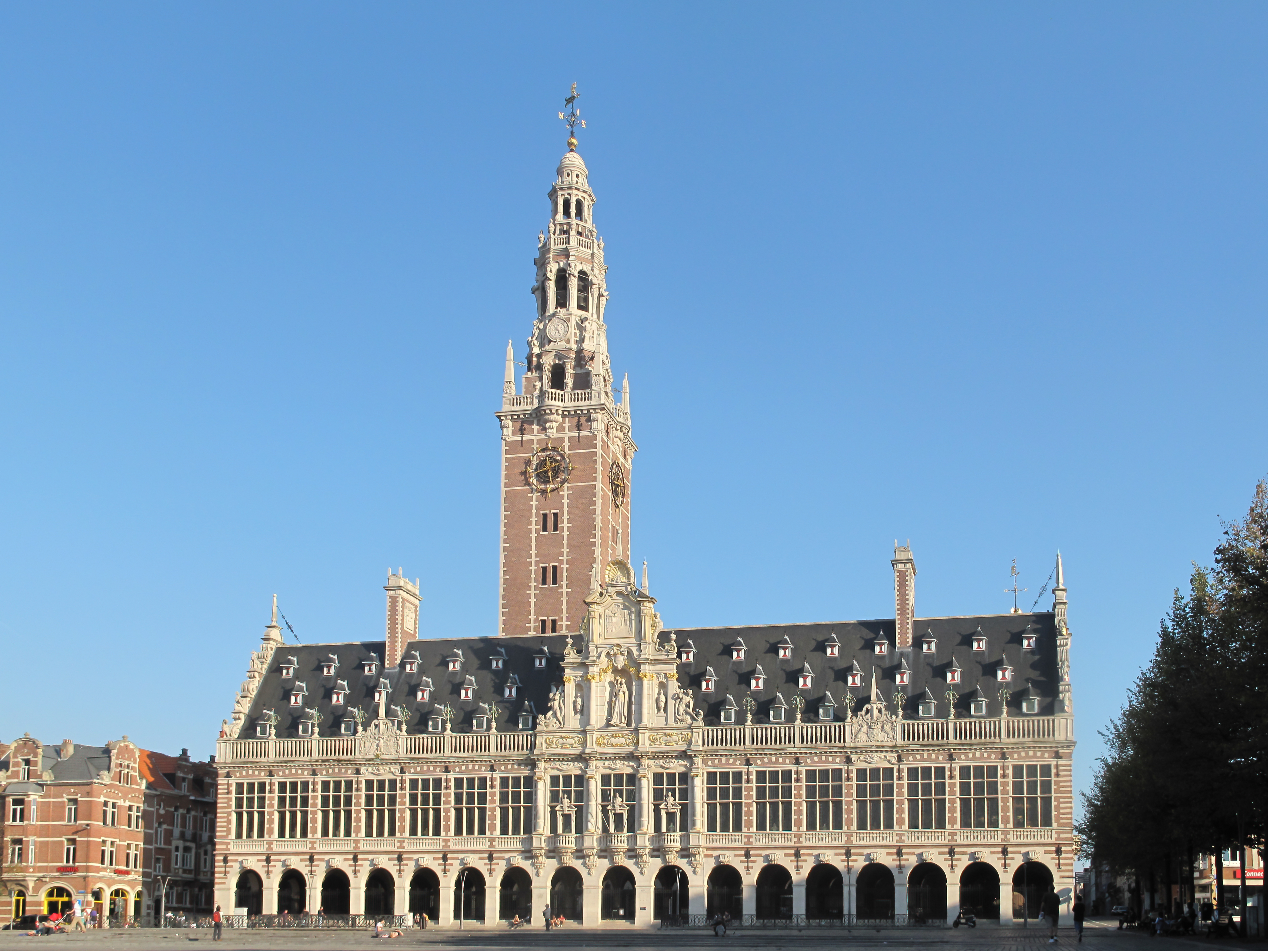 Leuven, university library ceg74154